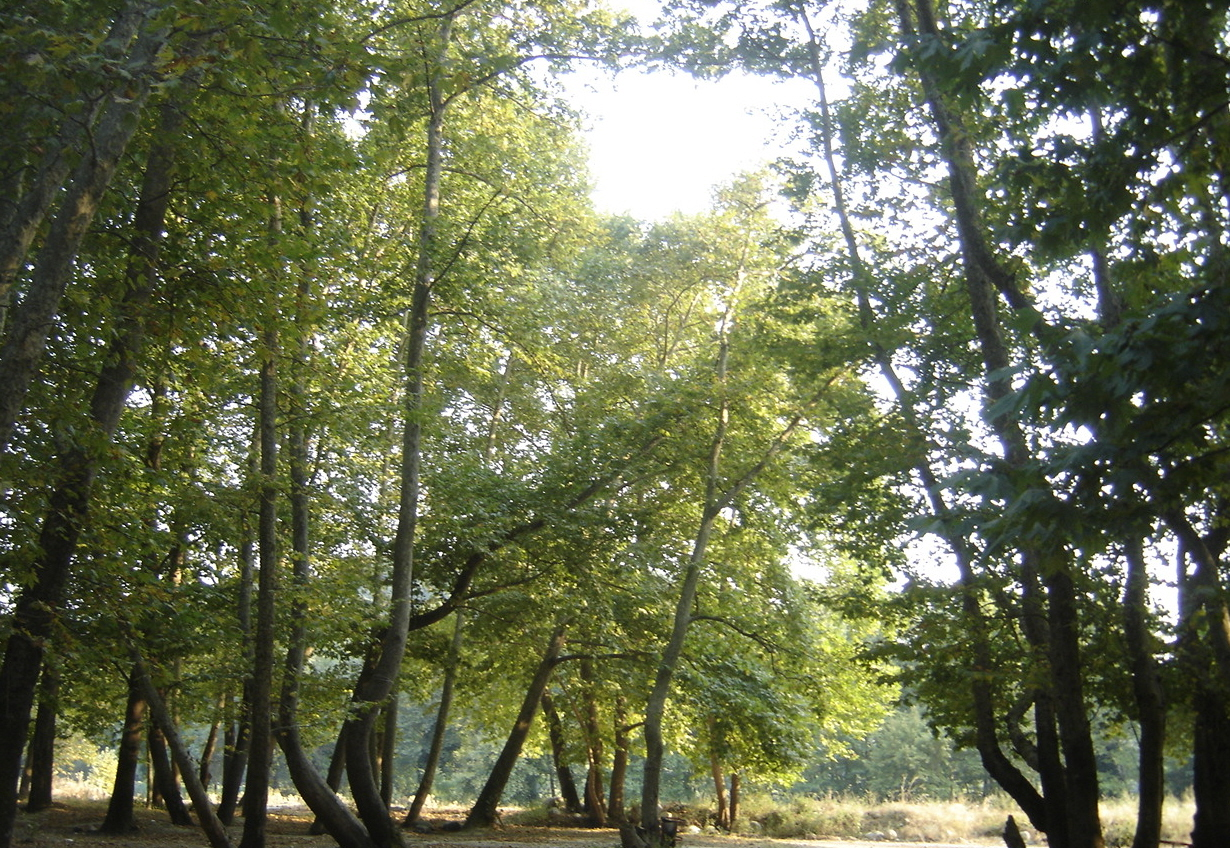 The forest of chestnut trees in Neokaisareia.